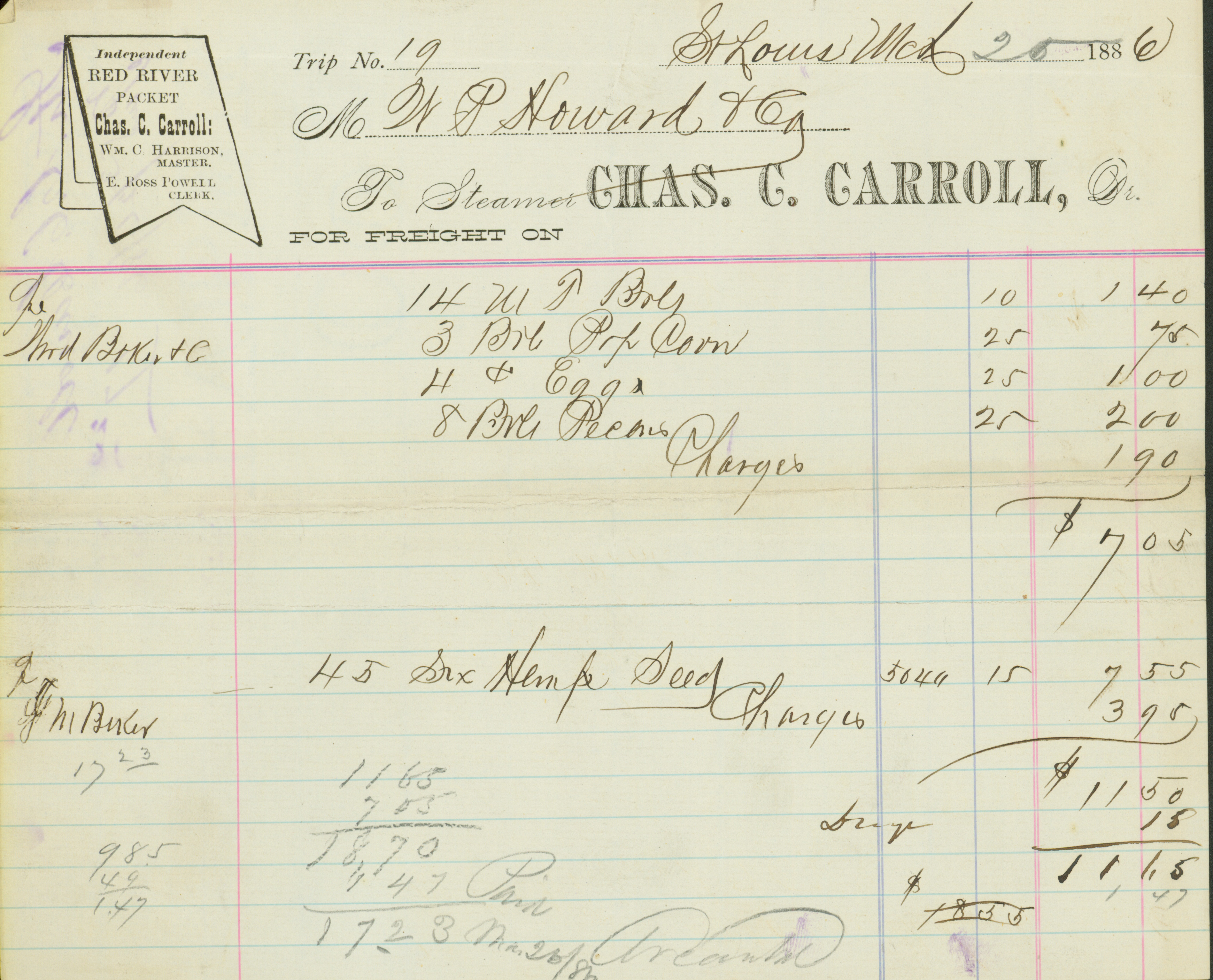 Title: Bill of lading, steamer Chas. C. Carroll, St. Louis, March 26, 1886